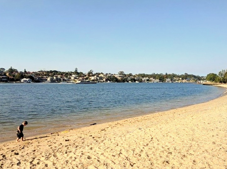 In Cabarita Park, just north of Concord, NSW.